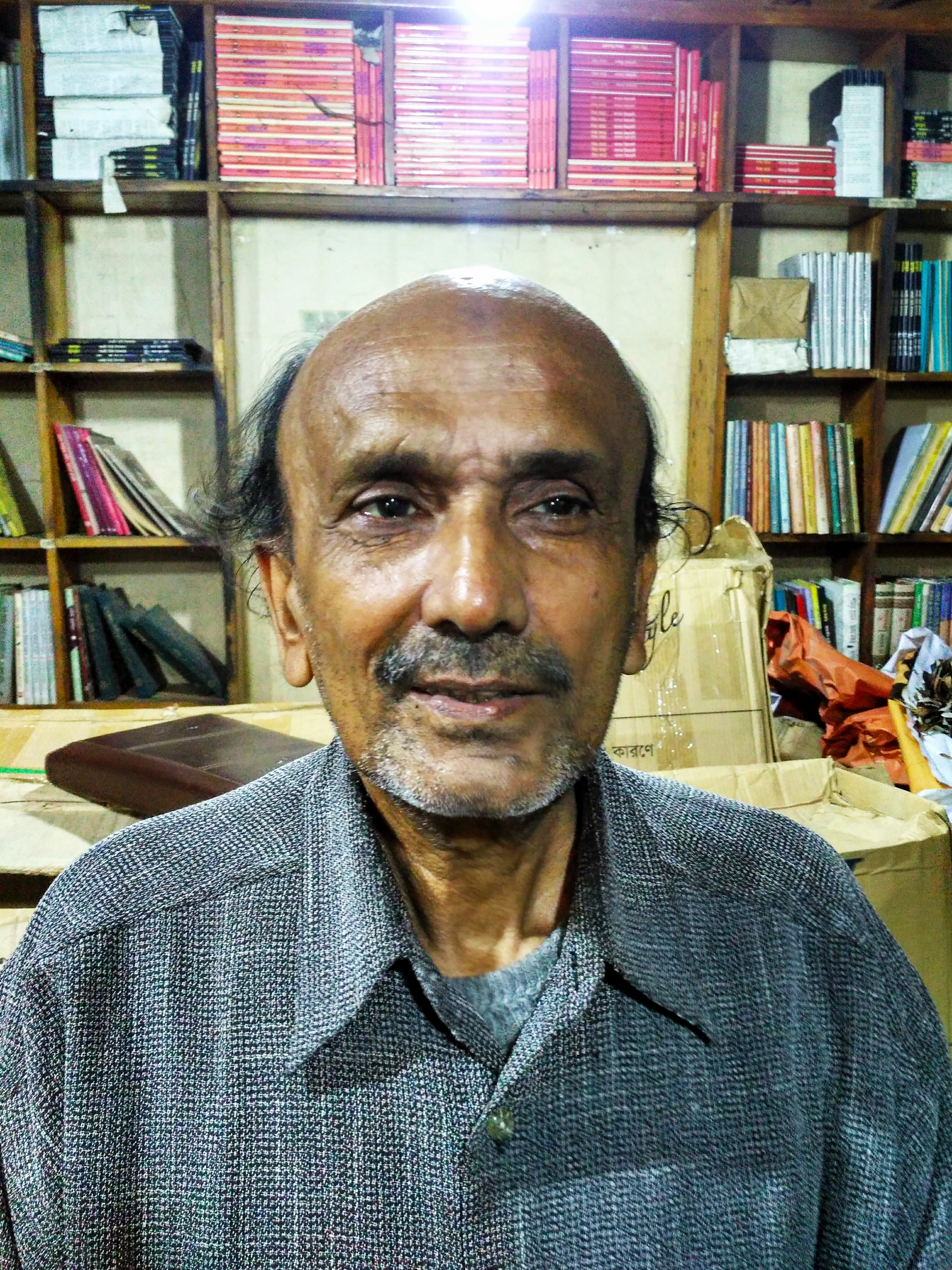 Anupam Hayat, a Bangladeshi author and film critic, at Aziz super market, Shahbagh, Dhaka. (06.03.2019)